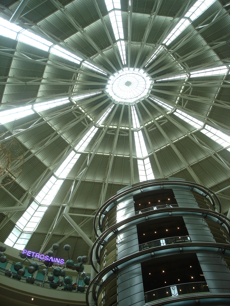 The atrium space of Suria KLCC.